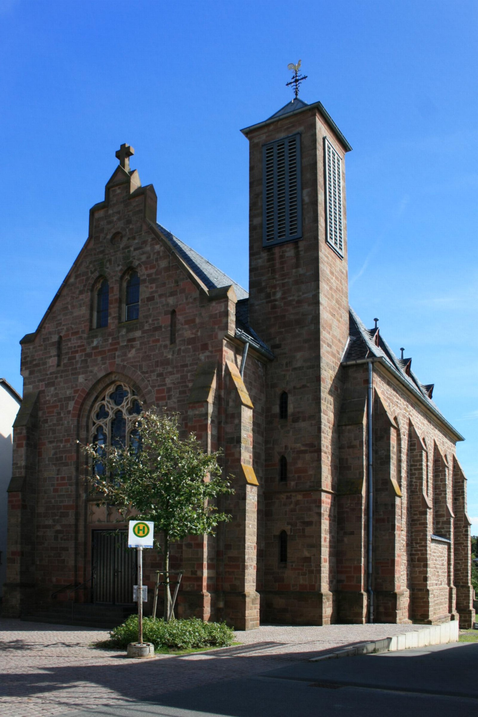 Cultural heritage monument No. 1 in Kreuzau